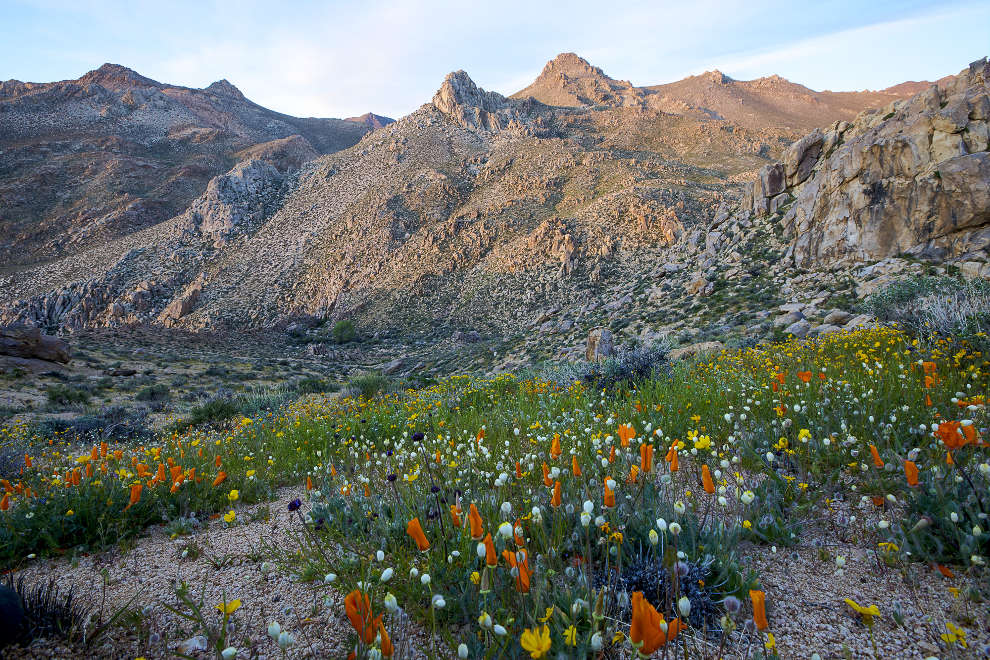 The majority of this Wilderness is comprised of the rugged eastern face of the Sierra Nevada Mountains. Owens Peak, the high point of the southern Sierra Nevada's, rises more than 8,400 feet. The mountainous terrain has deep, winding, open and expansive canyons, many which contain springs with extensive riparian vegetation. This area is a transition zone between the Great Basin, Mojave Desert and Sierra Nevada ecoregions. Vegetation varies considerably with a creosote desert scrub community on the bajadas, scattered yuccas, cacti, annuals, cottonwood and oak trees in the canyons and valleys and a juniper-pinyon woodland with sagebrush and digger/ grey pine on the upper elevations. Wildlife includes mule deer, golden eagle and prairie falcon. Evidence of occupation by prehistoric peoples has been found throughout the wilderness. The Pacific Crest Trail passes through the Wilderness along the crest and western side.